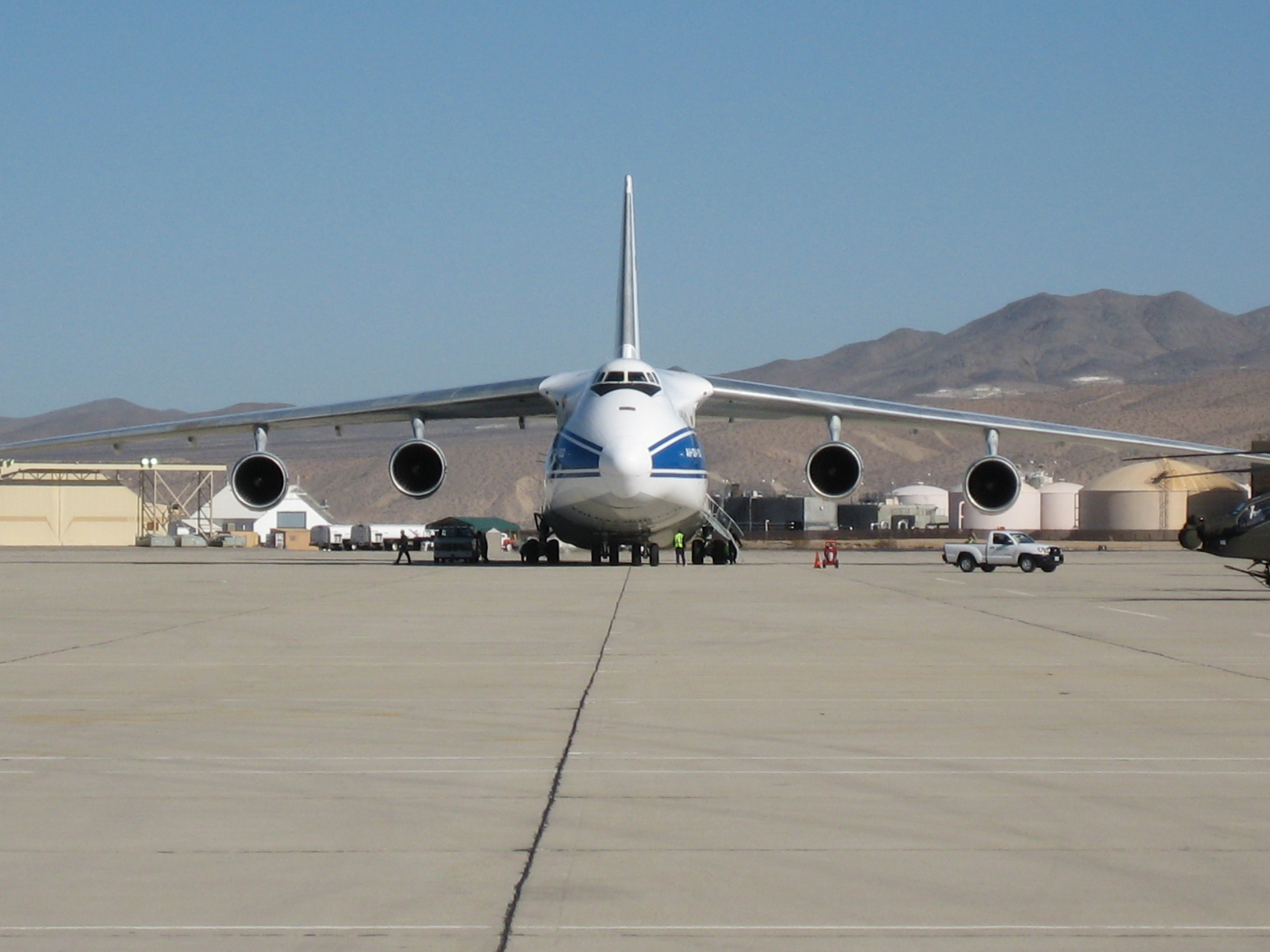 Antonov An-124 unloading Apache attack helicopters at Victorville Airport.